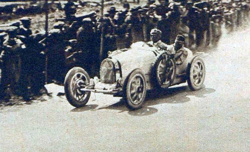 Entry #27 (and the overall winner!) in the 1926 Targa Florio (April 25, 1926) is Méo Constantini driving a Bugatti T35T.[1].